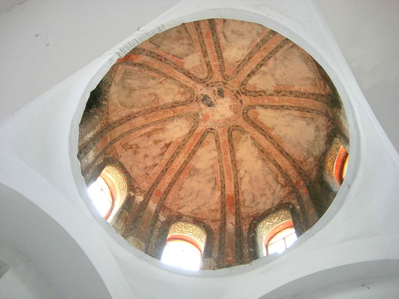 The South dome of the exonarthex of Vefa Church in Istanbul